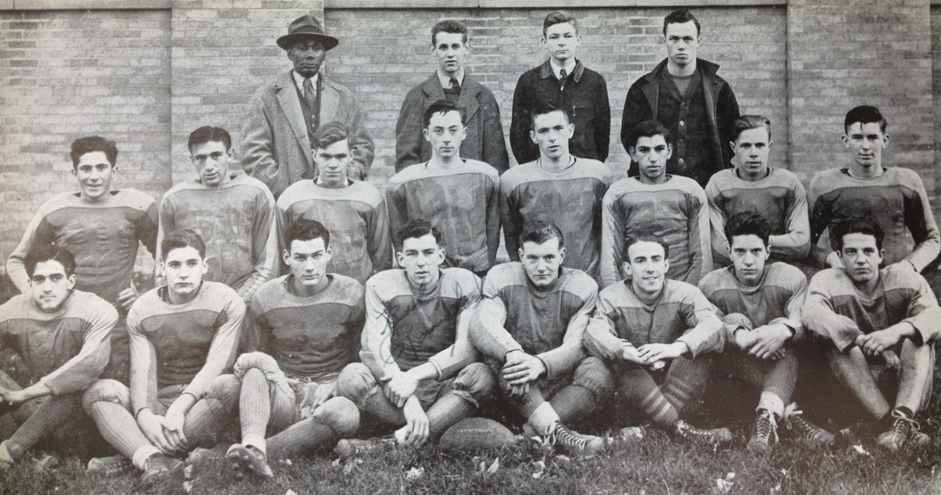 DeSales High School, Geneva, NY's head football coach and his team from Fall 1940. The image comes from the 1941 Salesian, the school's yearbook.